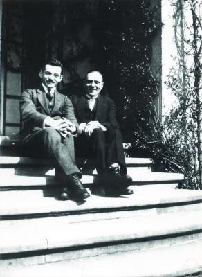 Otto Toeplitz (right) and Alexander Ostrowski (left)